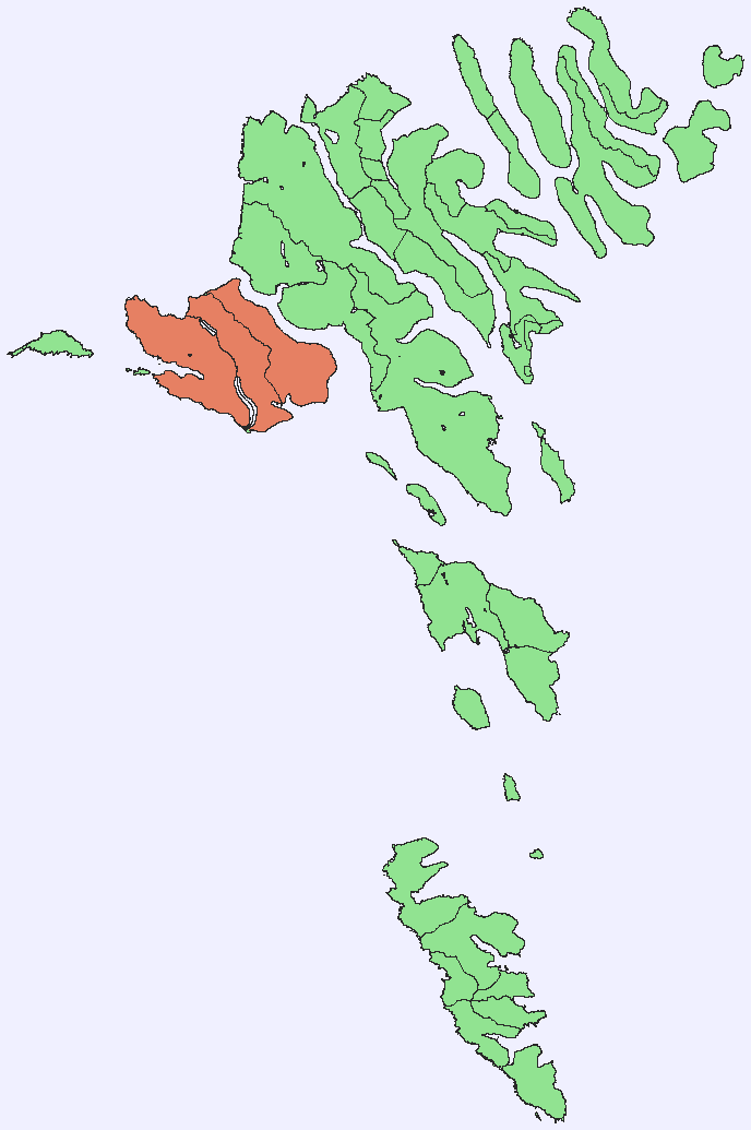 Position of Vágar, Faroe Islands